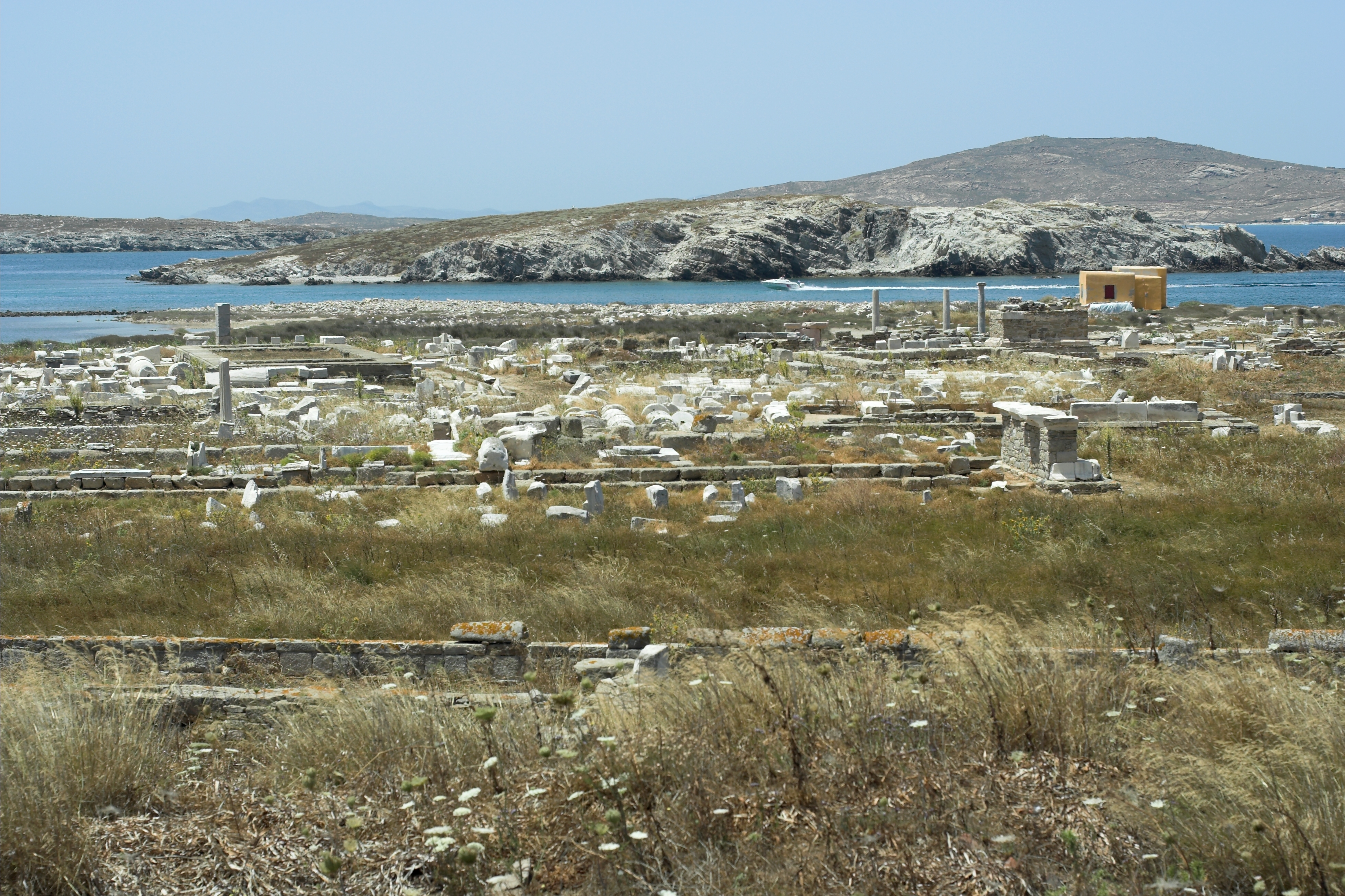 The view from the way from the Museum to the Temple of Isis: Neorium ("Monument with the bulls"), followed by left Great Temple of Apollo (Delians), right Artemision.